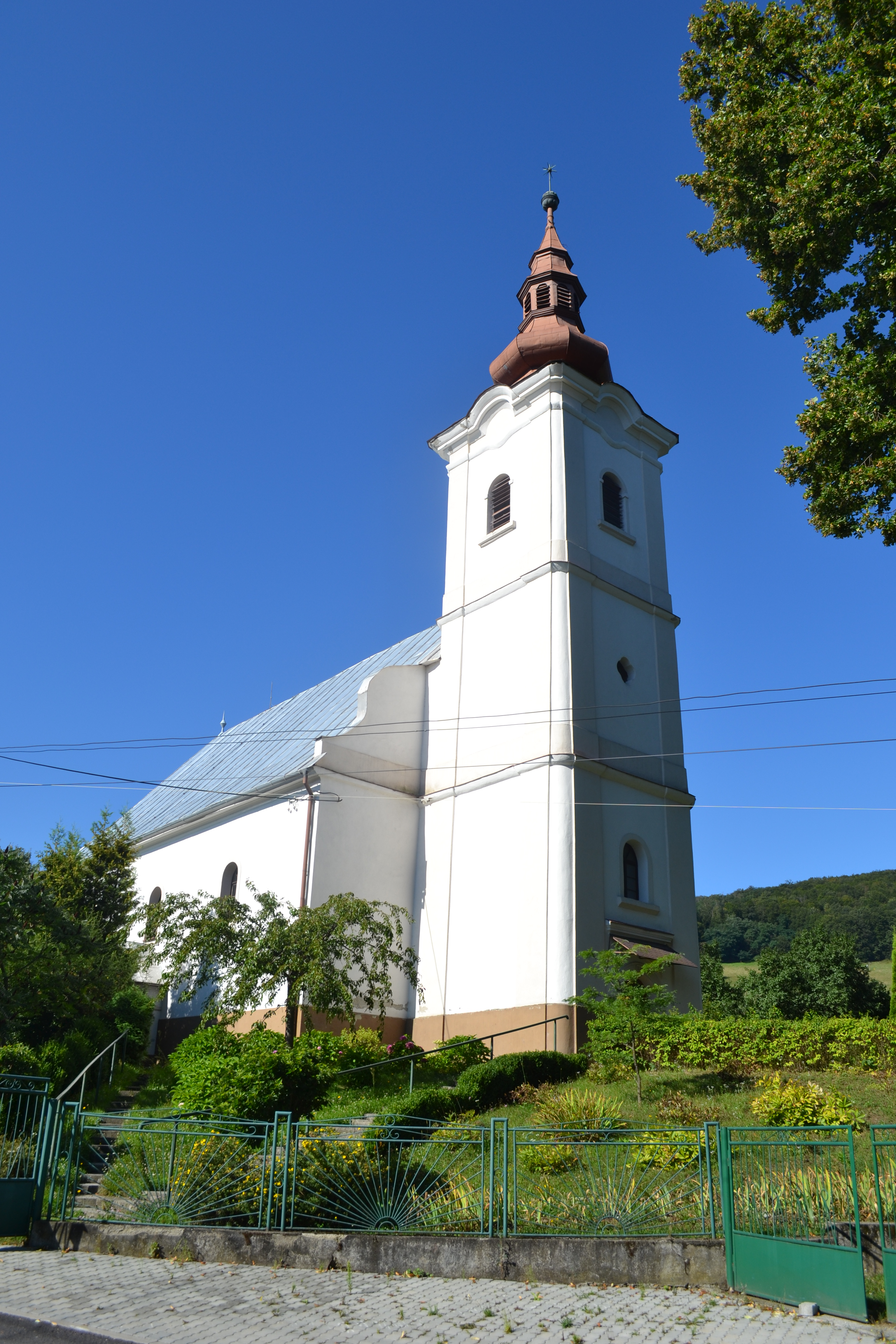 Evangelical Church in Málinec, the original church was built here around the 14th centurySlovenčina: Evanjelický kostol v Málinci, pôvodný kostol postavili na tomto mieste približne v 14. storočí Object location48° 29′ 45.49″ N, 19° 40′ 42.92″ E